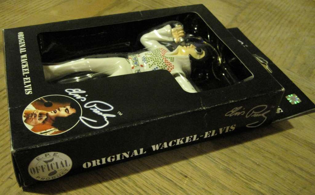 Gift box of Wackel-Elvis